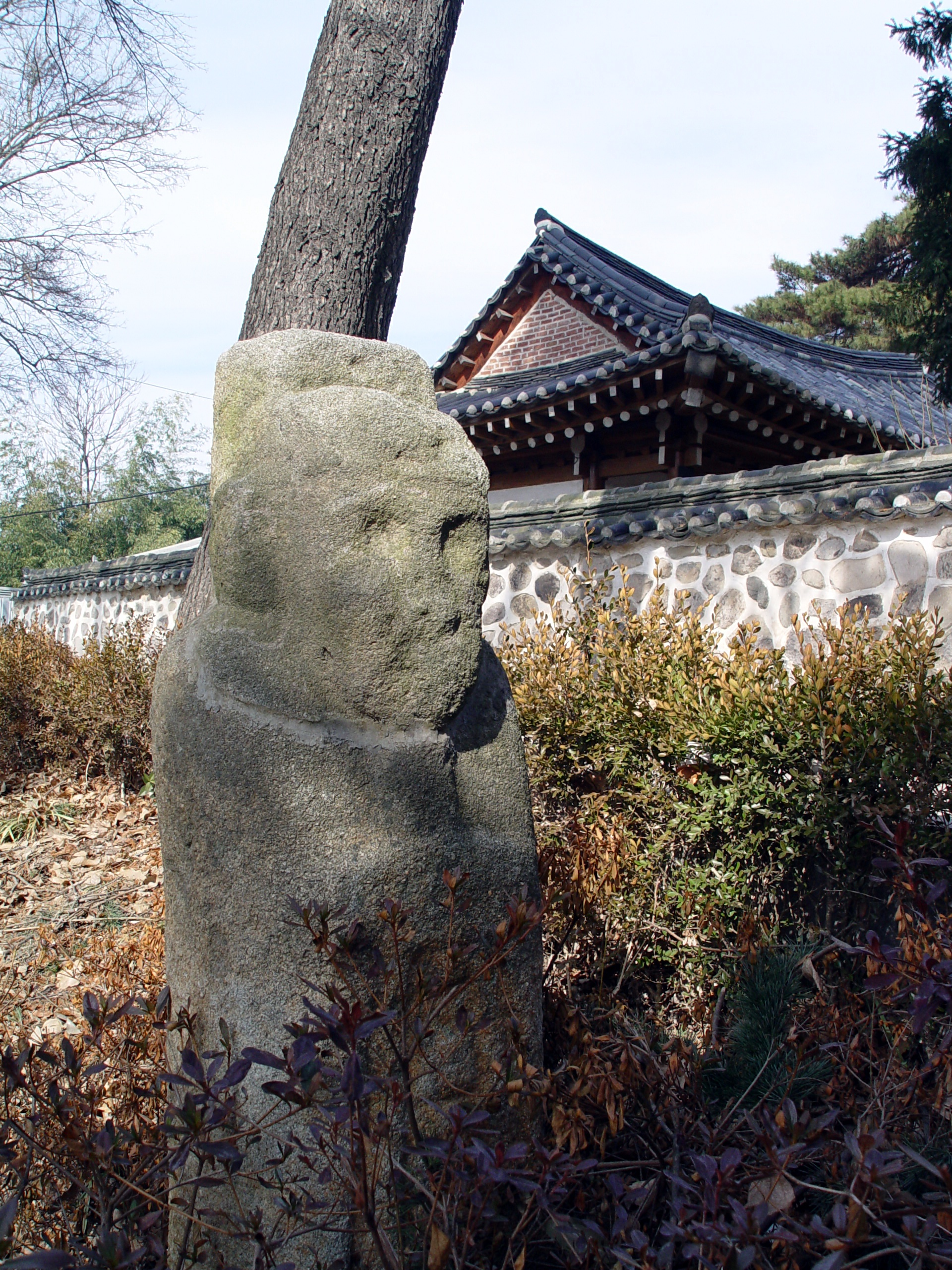 A statue guarding Chungryeolsa, a temple in Jeongeup, South Korea